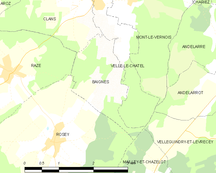 Map of French municipality